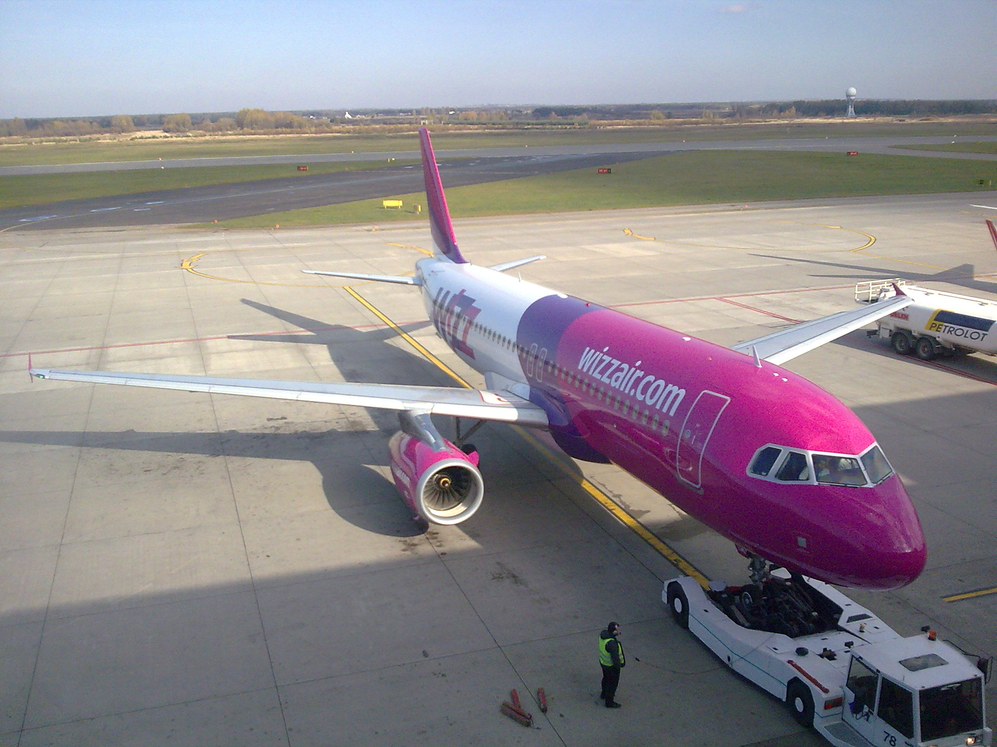 Airbus A320 Wizz Air in Katowice Airport ready to go to Barcelona.